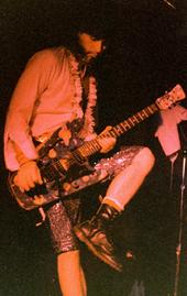 Self, Scanned Photograph